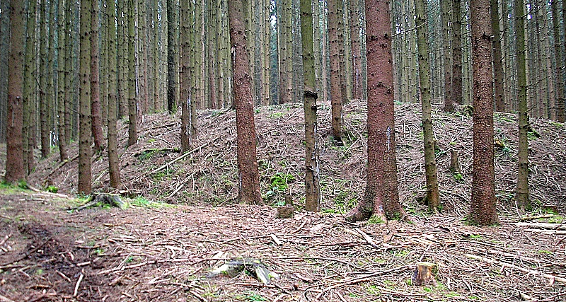 Early middle age ringwork "Kirchholz" near Haberskirch and Dasing (Bavaria, Germany). Northeastern part of the central earthworks.